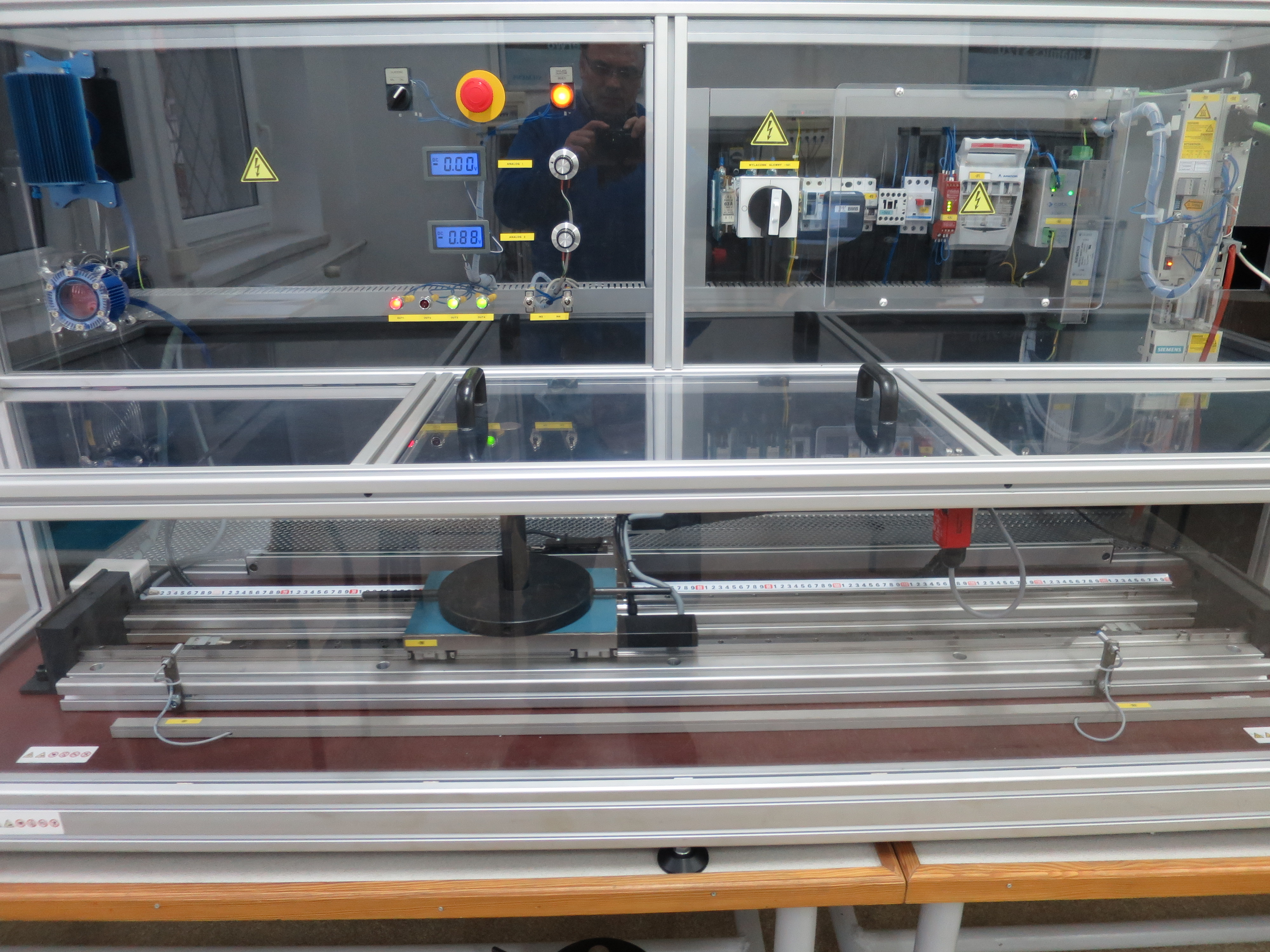 The laboratory stand for testing linear motor